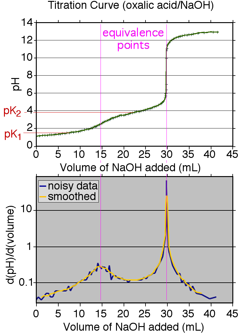 Similar to :Image:Oxalic acid titration grid.png, but includes a plot of the slope. Titration of 0.5 M oxalic acid with 1.0 M NaOH. Laboratory data collected by User:Atropos235. Data plot modified by User:JWSchmidt.